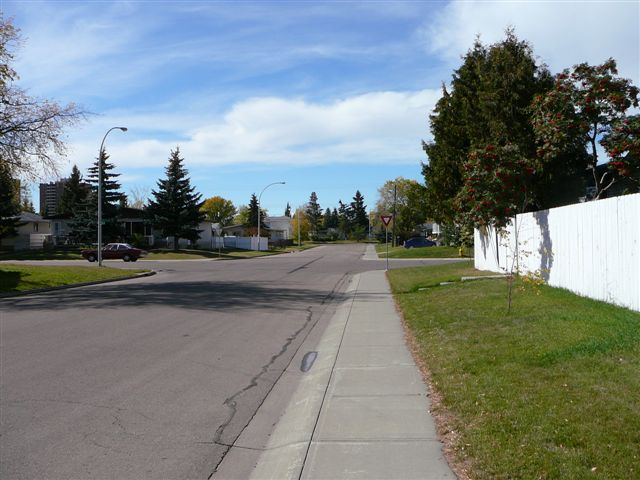 I took this picture myself of September 24, 2007